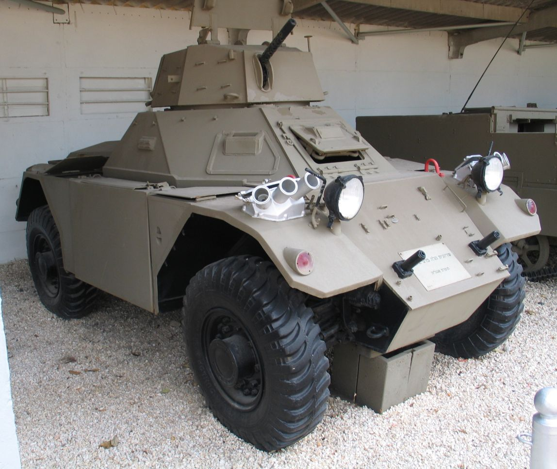 Description: Ferret Mk 2 armored car in Batey ha-Osef museum, Tel Aviv, Israel. 2005. Source: Photo by me, User:Bukvoed.